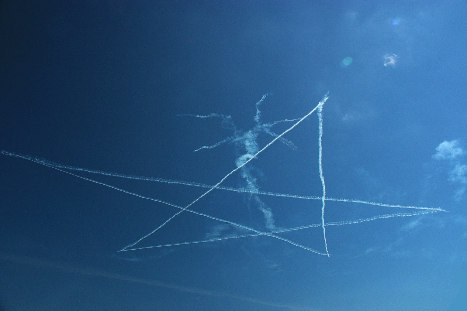 JASDF Blue Impulse, StarCross.